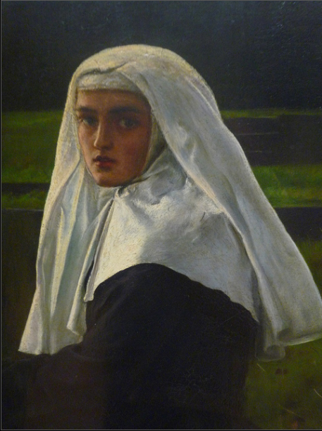 The vale of rest, detail